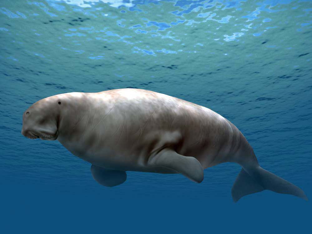 Life restoration of Dusisiren jordani